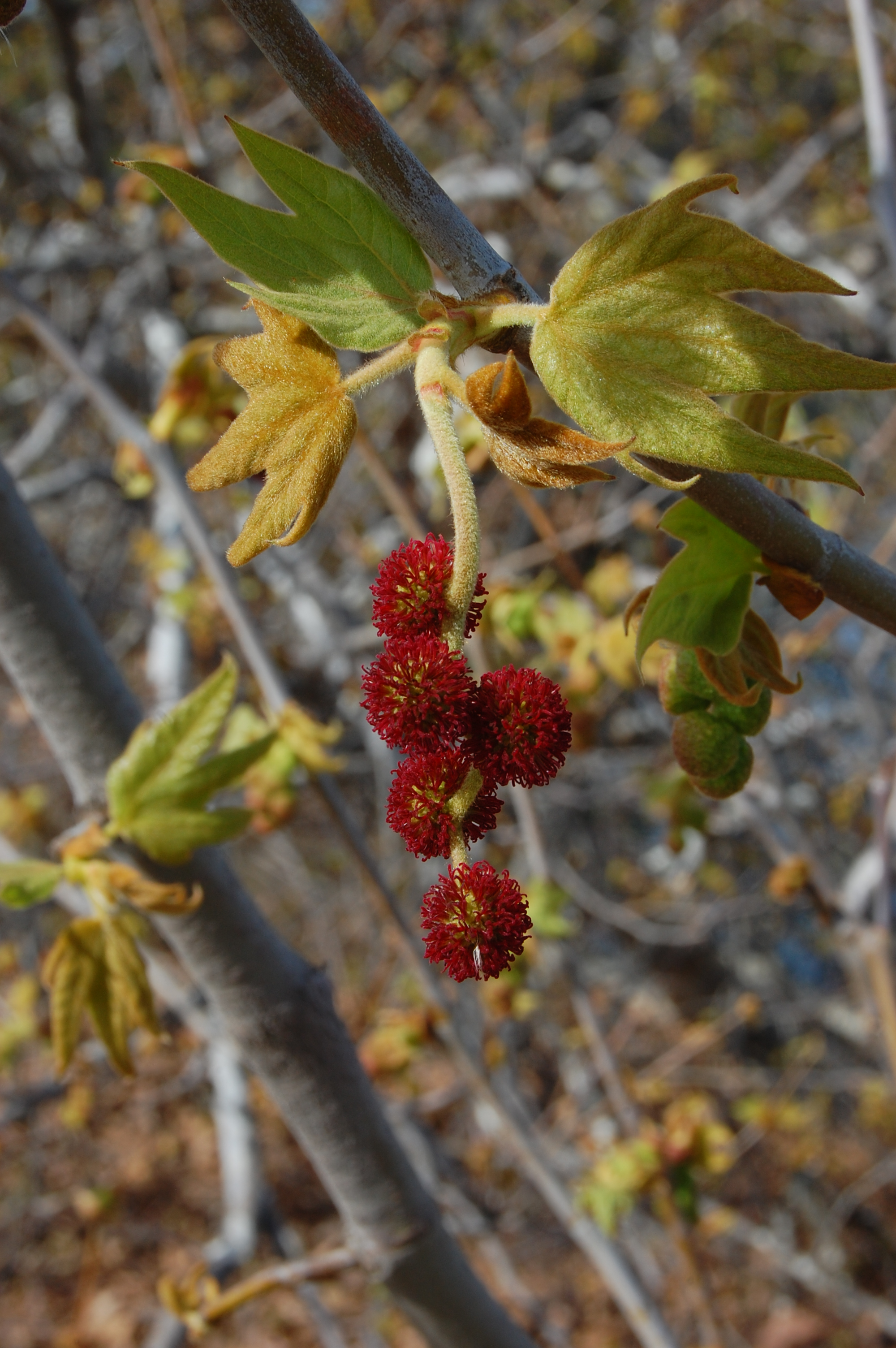 California Sycamore, Western Sycamore, Aliso